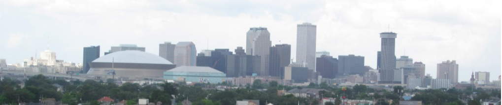 New Orleans: View towards Central Business District from Oschner Baptist Hospital parking garage Uptown. Intersection just off photo edge to left is Claiborne Avenue and Napoleon Avenue.